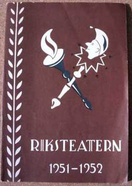 Standard Riksteatern playbill cover/design from the 1950s.